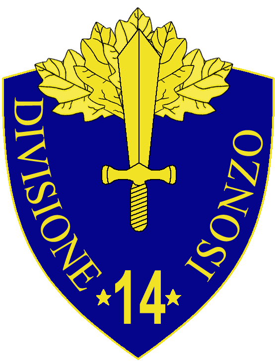 14a Divisione Fanteria Isonzo insignia, Regio Esercito, Italy, WWII